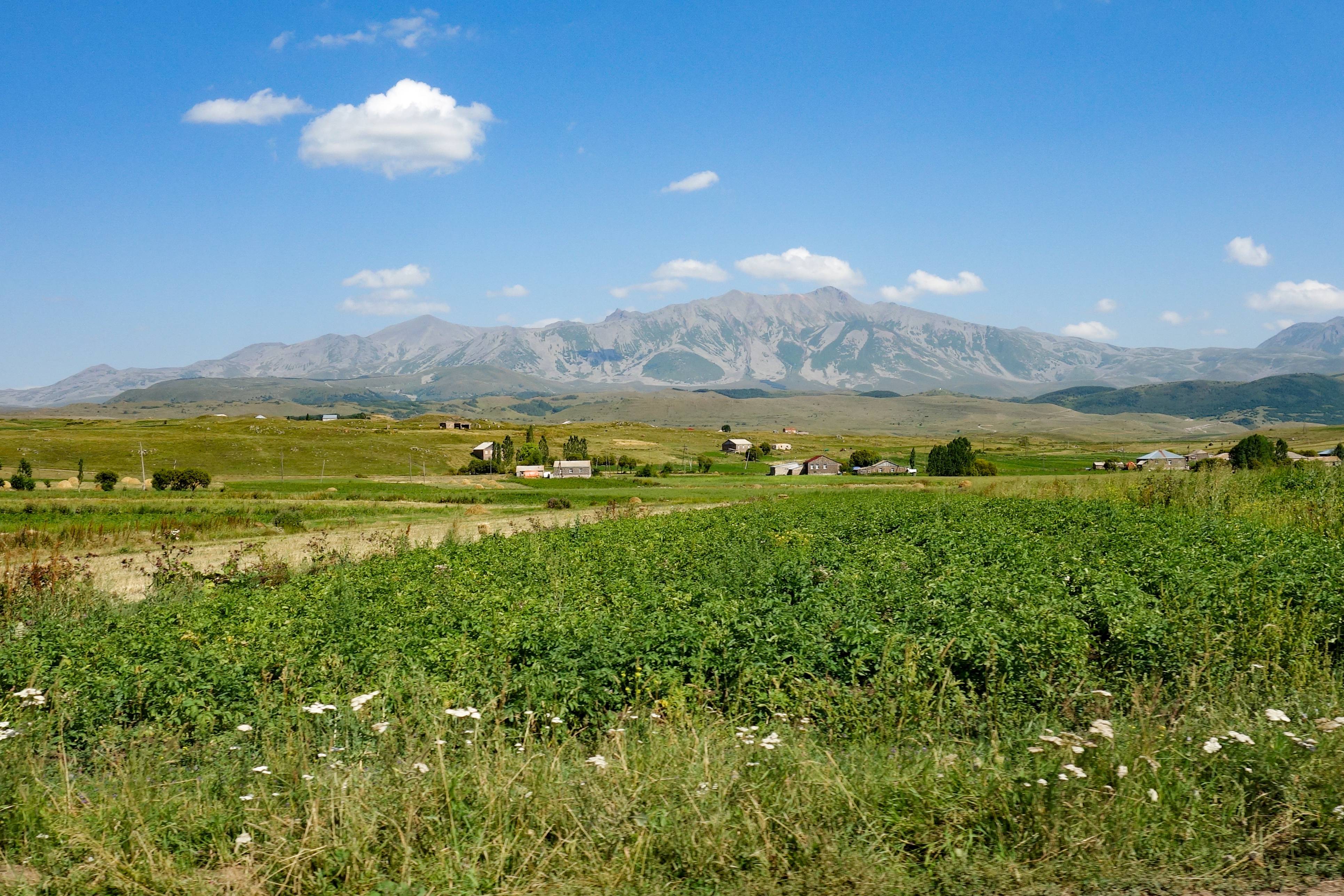 Mount Samsari seen from the village of Kochio, Samtskhe-Javakheti, Georgia